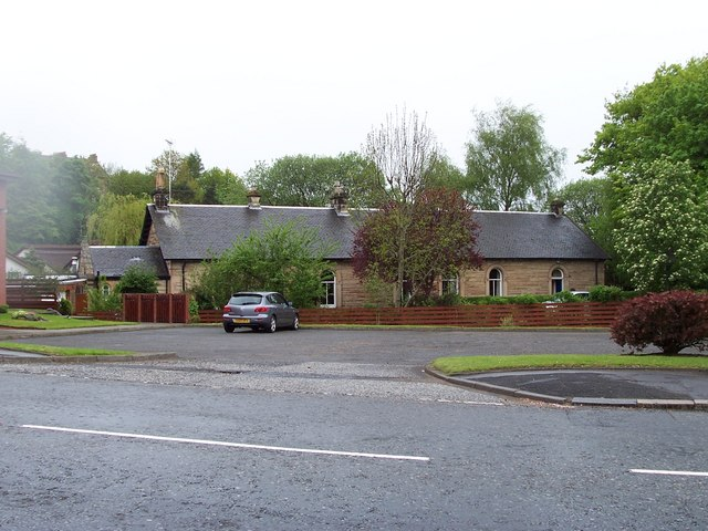 Former railway station. Located off Neilston Road, Paisley, this was originally Potterhill station on the long since closed Paisley-Barrhead line.